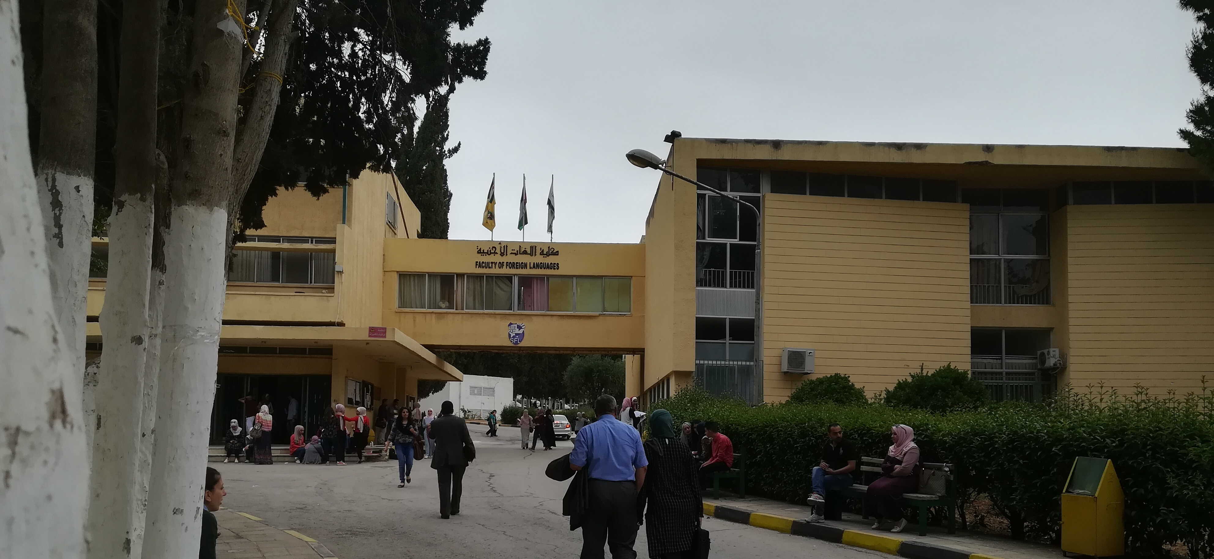 Faculty of Foreign languages in the University (FFL)